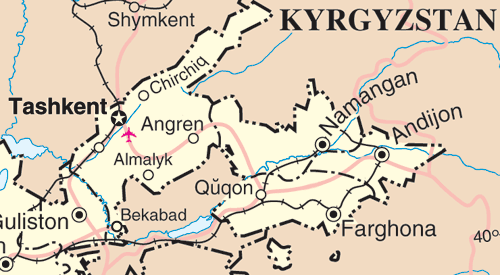 Map of eastern Uzbekistan Adapted